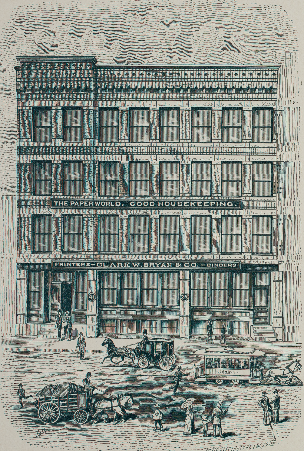 The offices of Clark W. Bryan and Company, the Springfield, Massachusetts offices of the publishing and binding firm which produced Good Housekeeping and the The Paper World. The building still stands at 39, 41, 43 Lyman Street, in Springfield.